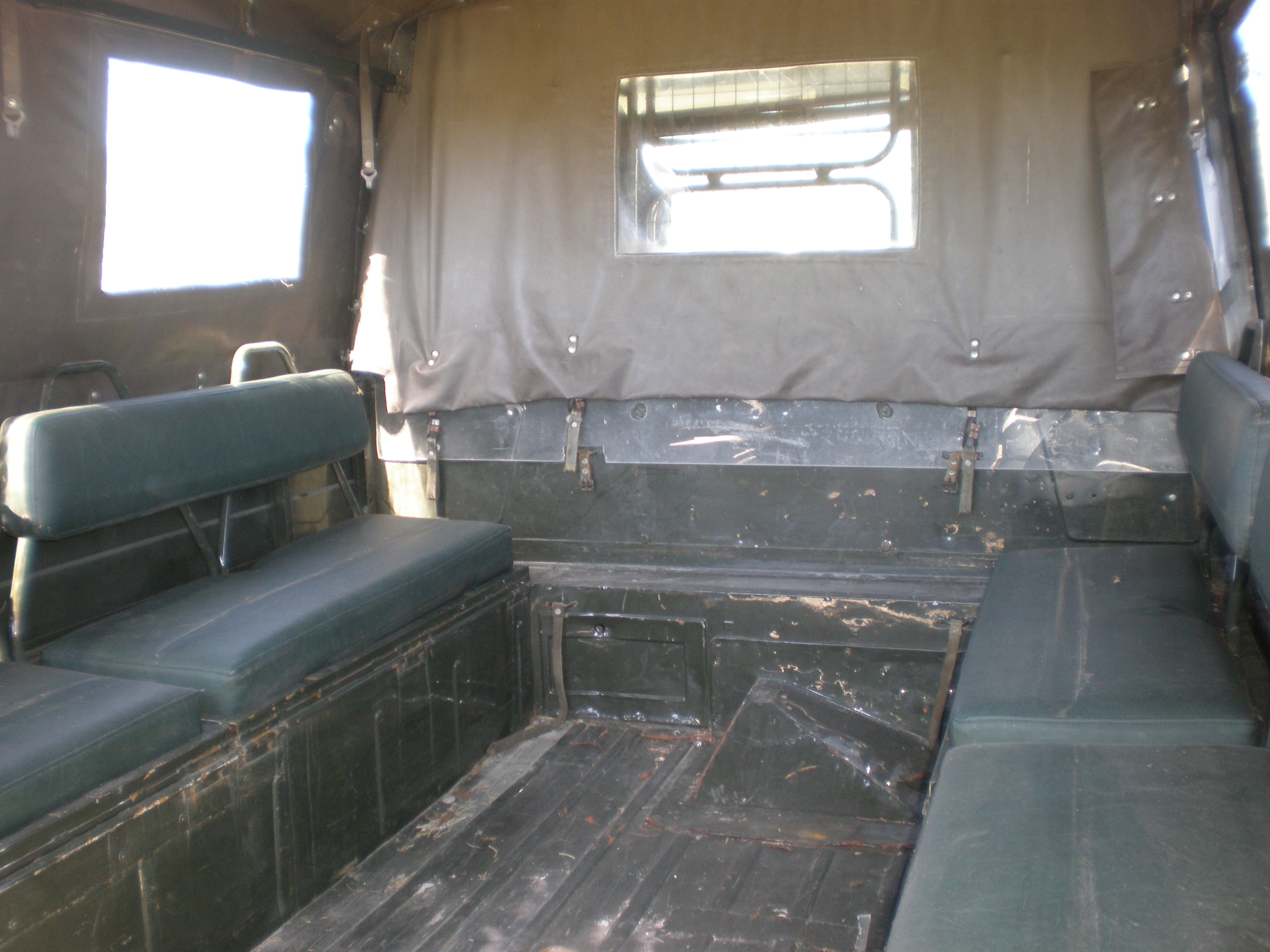 The interior of a Steyr-Puch Pinzgauer (likely first generation) formerly in Swiss military service at the Pacific Coast Dream Machines vehicle show at the Half Moon Bay Airport in Half Moon Bay, California.